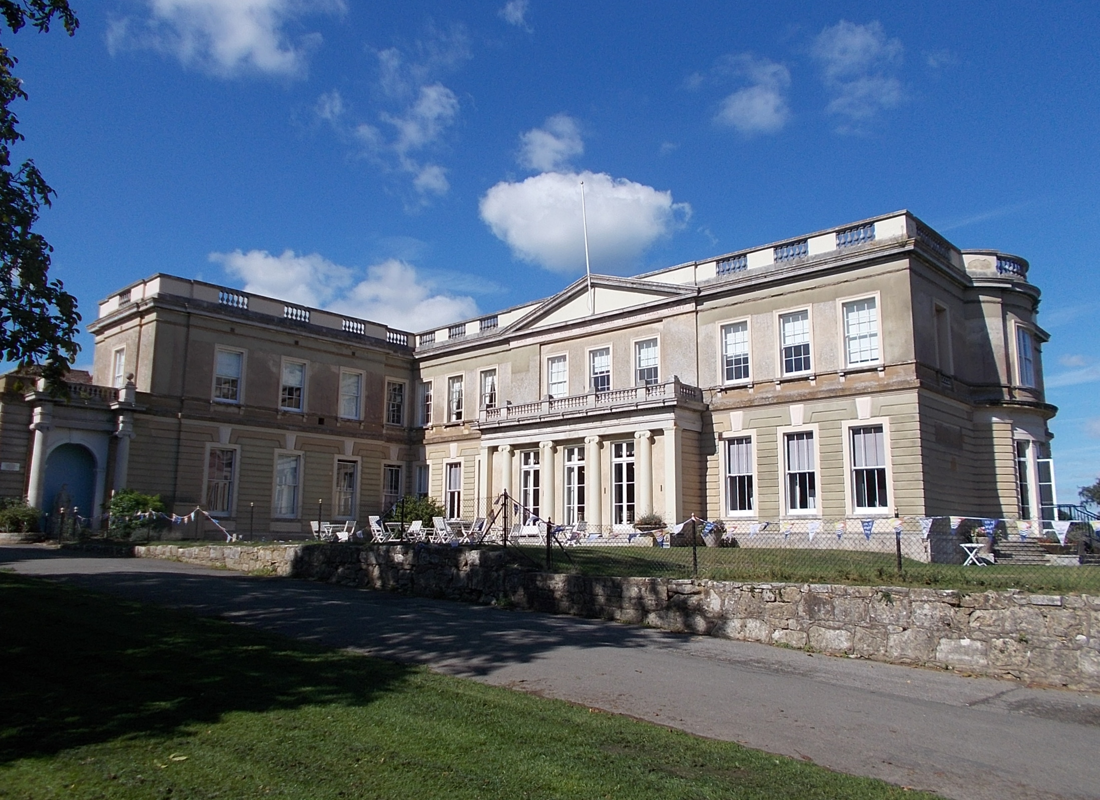 Northwood House, Cowes, Isle of Wight, UK. View from south east.